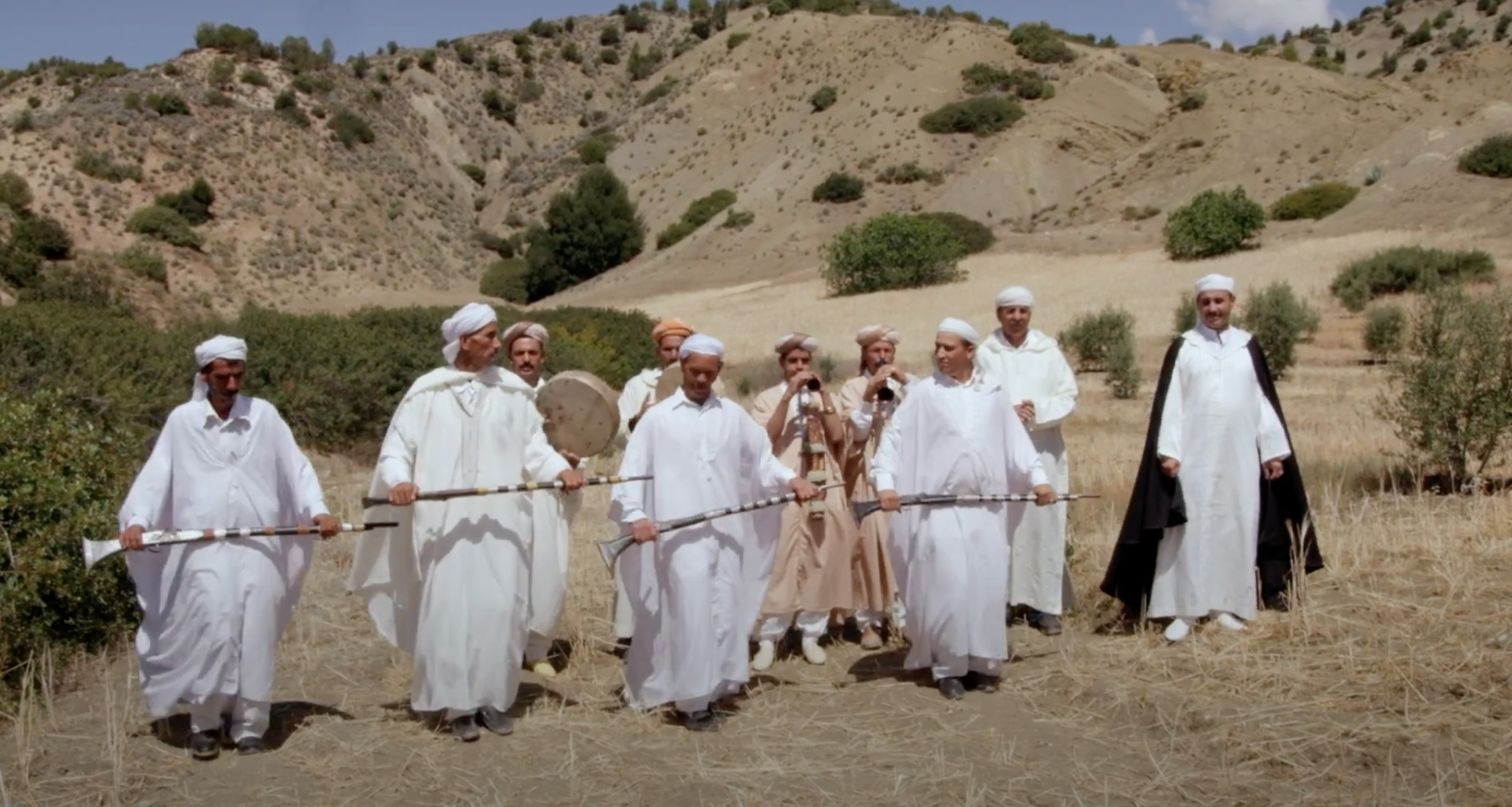 Danse des fusils Aknoul